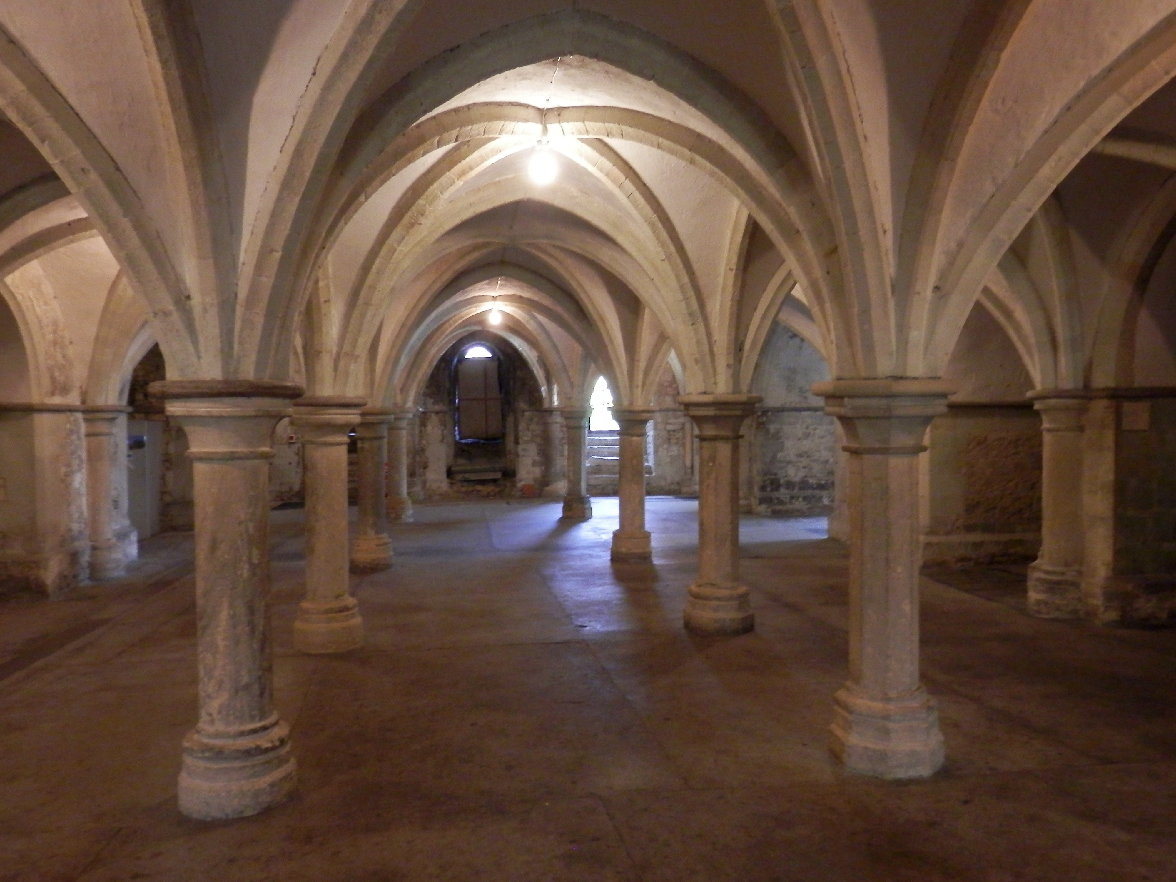 Rochester Cathedral (Kent), second oldest in England